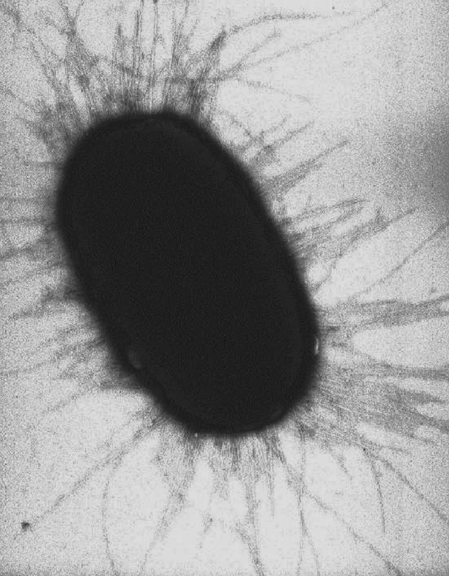 The long, sticky filaments covering E. coli bacteria uncoil under force, apparently improving the binding of the terminal adhesive unit in the presence of forces generated by fluid flow.